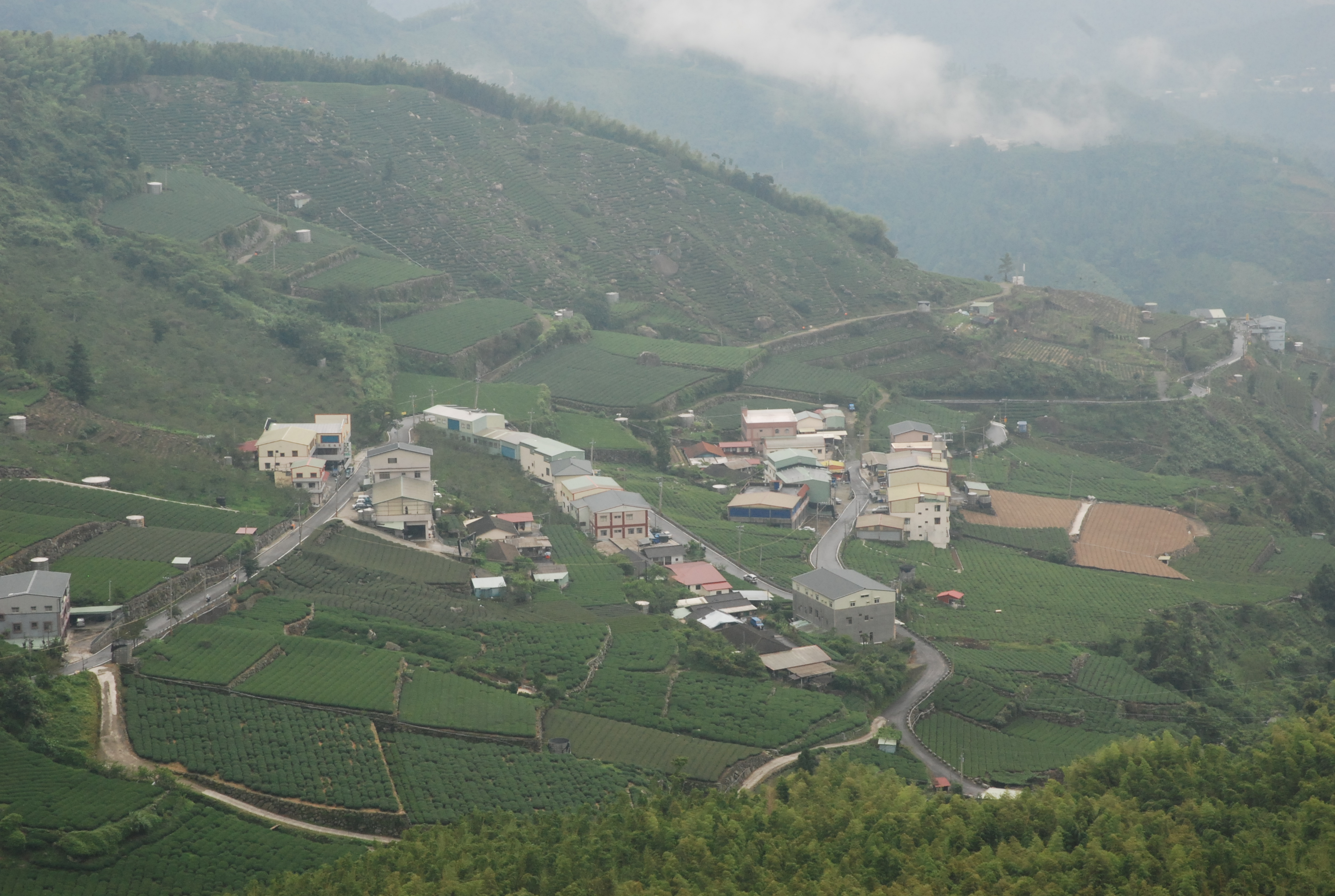 Village in the middle of tea plantations.